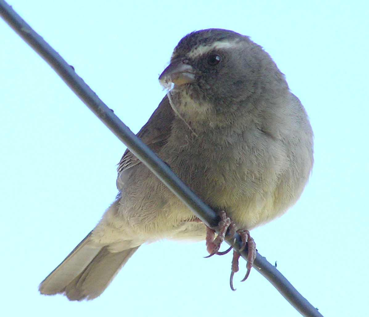 Brown-rumped Seadeater in Debre Berhan, Ethiopia